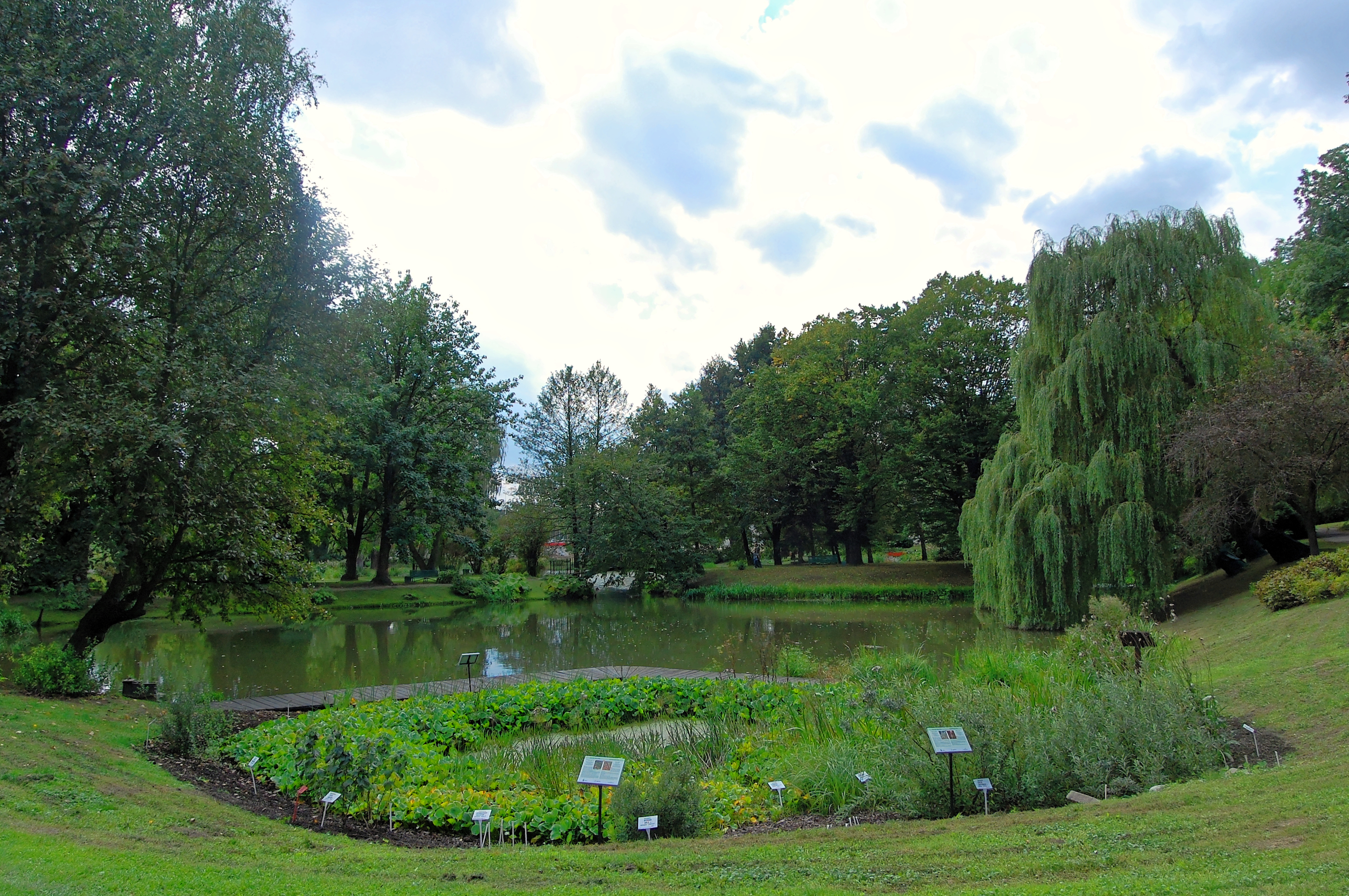 UMCS Botanical Garden in Lublin